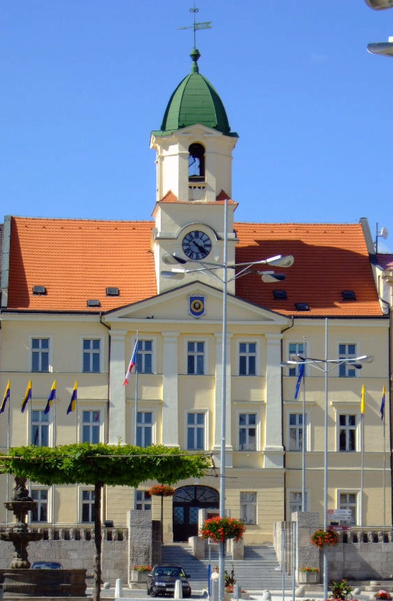 City hall in Teplice